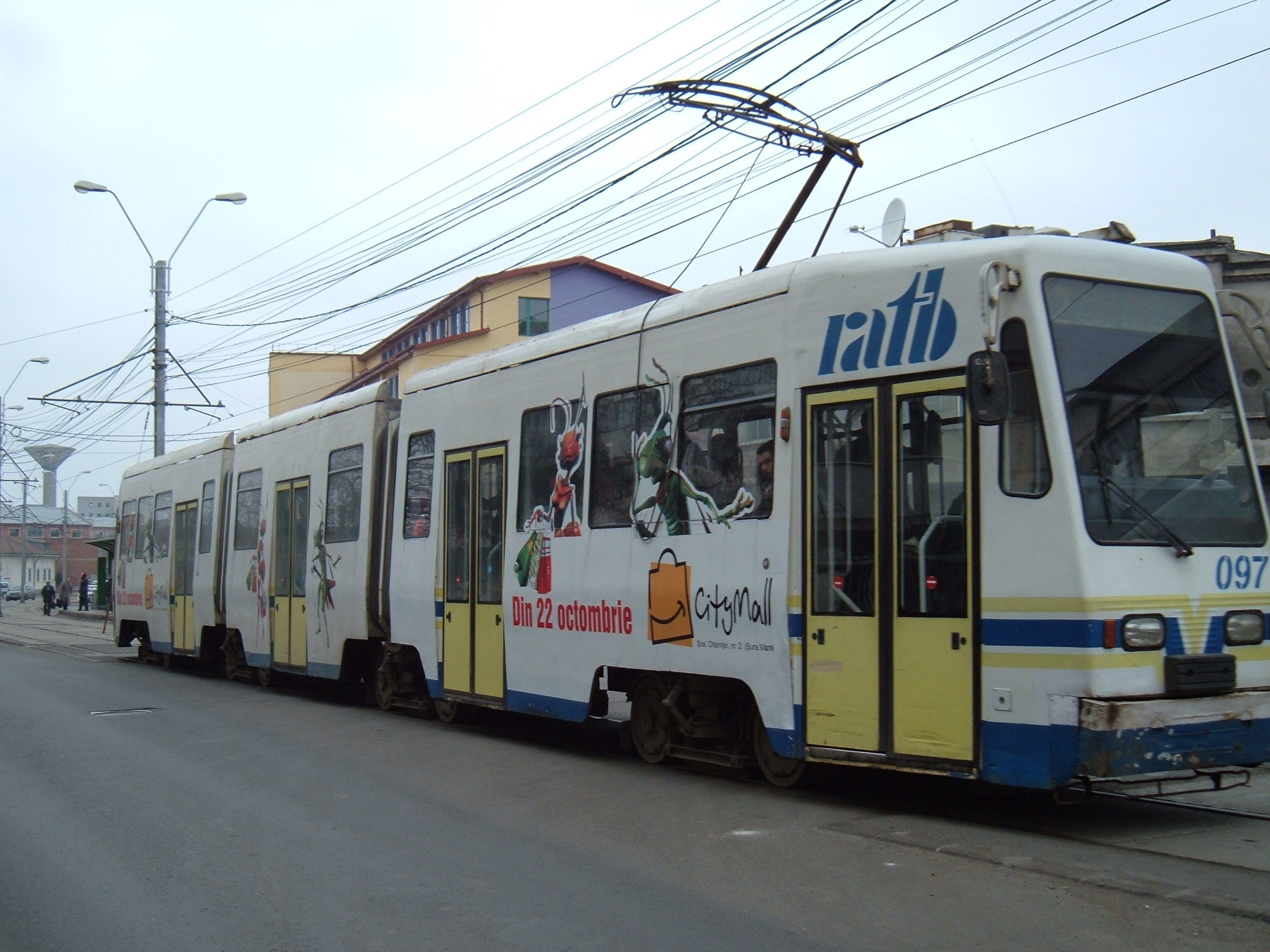 Tram in Bucharest, Romania (V3A type). RATB București company.